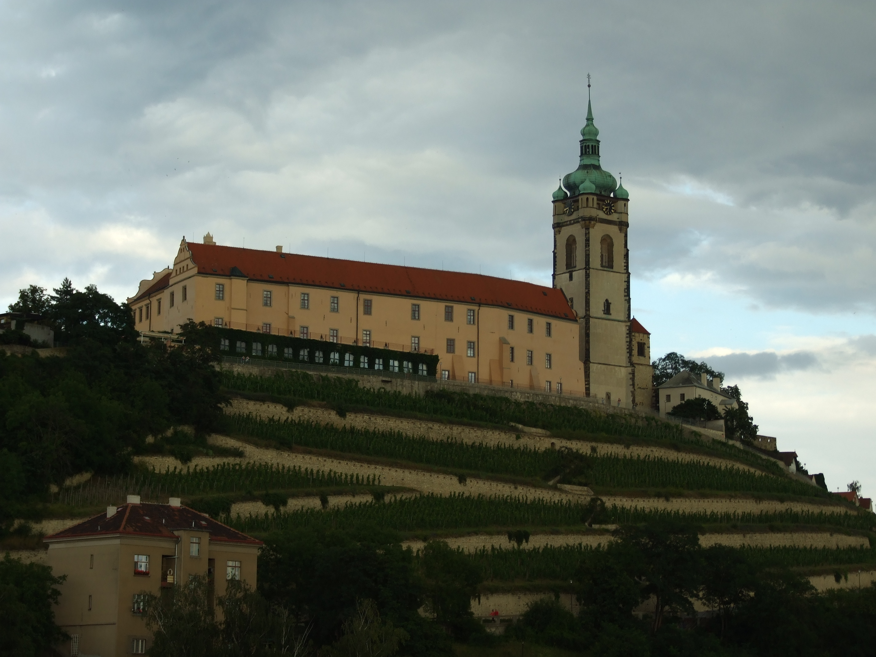 Mělník Castle, important landmark and symbol of the city of Mělník. Central Bohemian Region, CZhelp